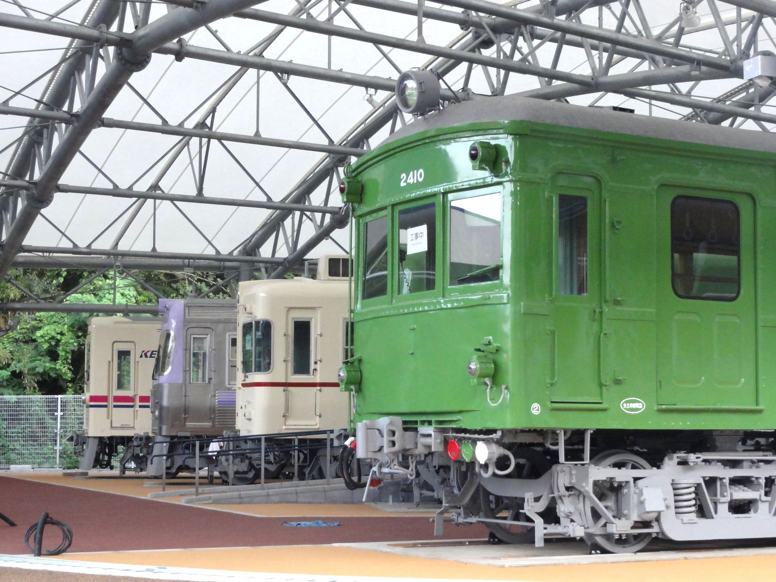 Exhibits at Keio Rail-Land (right to left: Keio 2400 series, 5000 series, 3000 series, 6000 series)